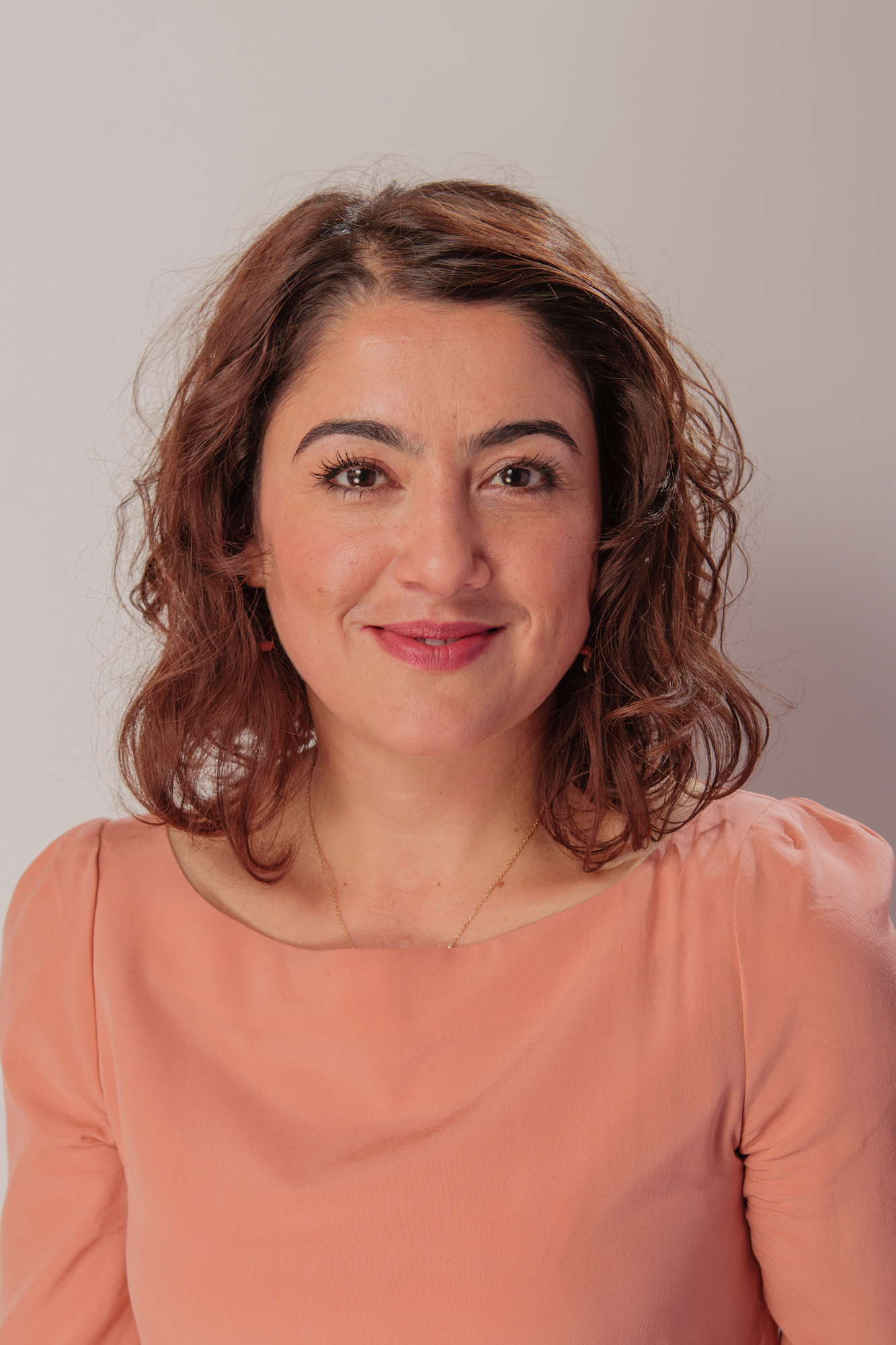 Socialistische Partij Candidate for the House of Representatives during the 2012 general elections.